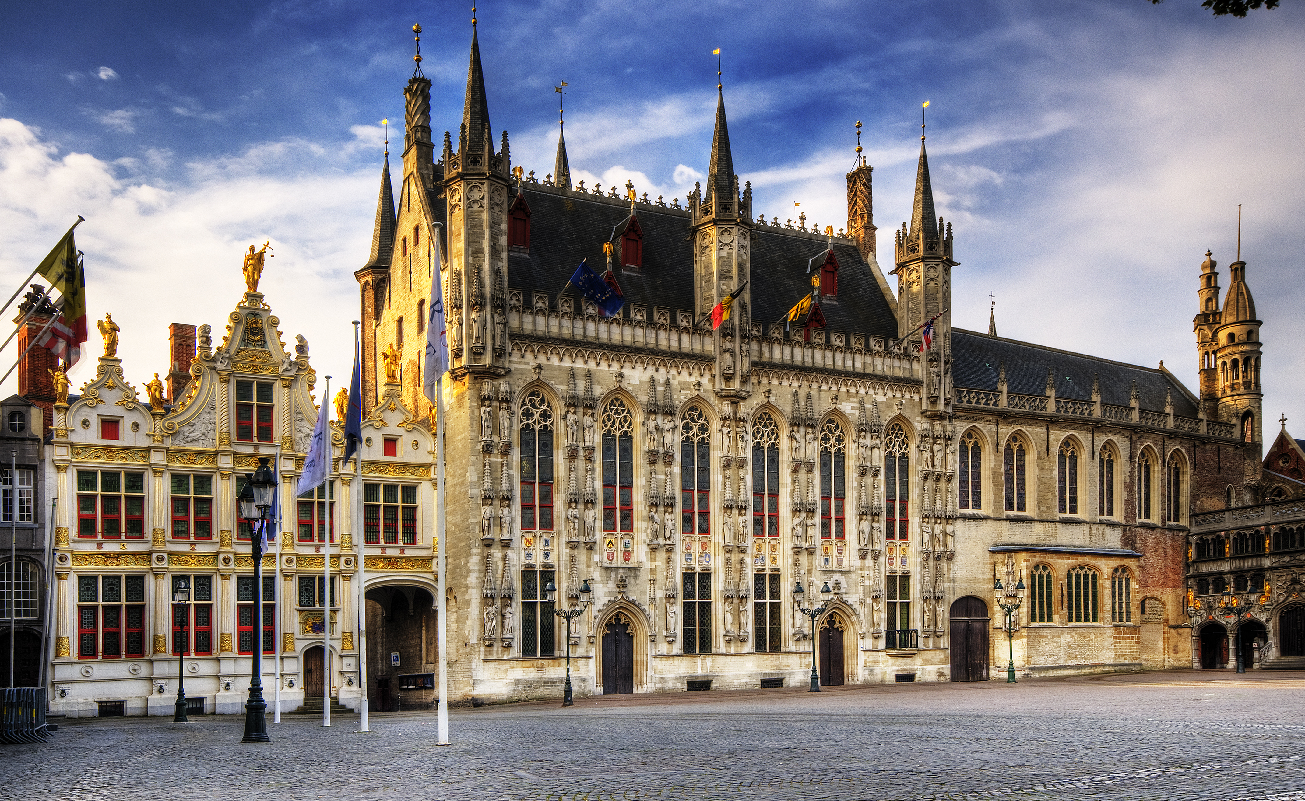 Bruges Town Hall, Belgium.